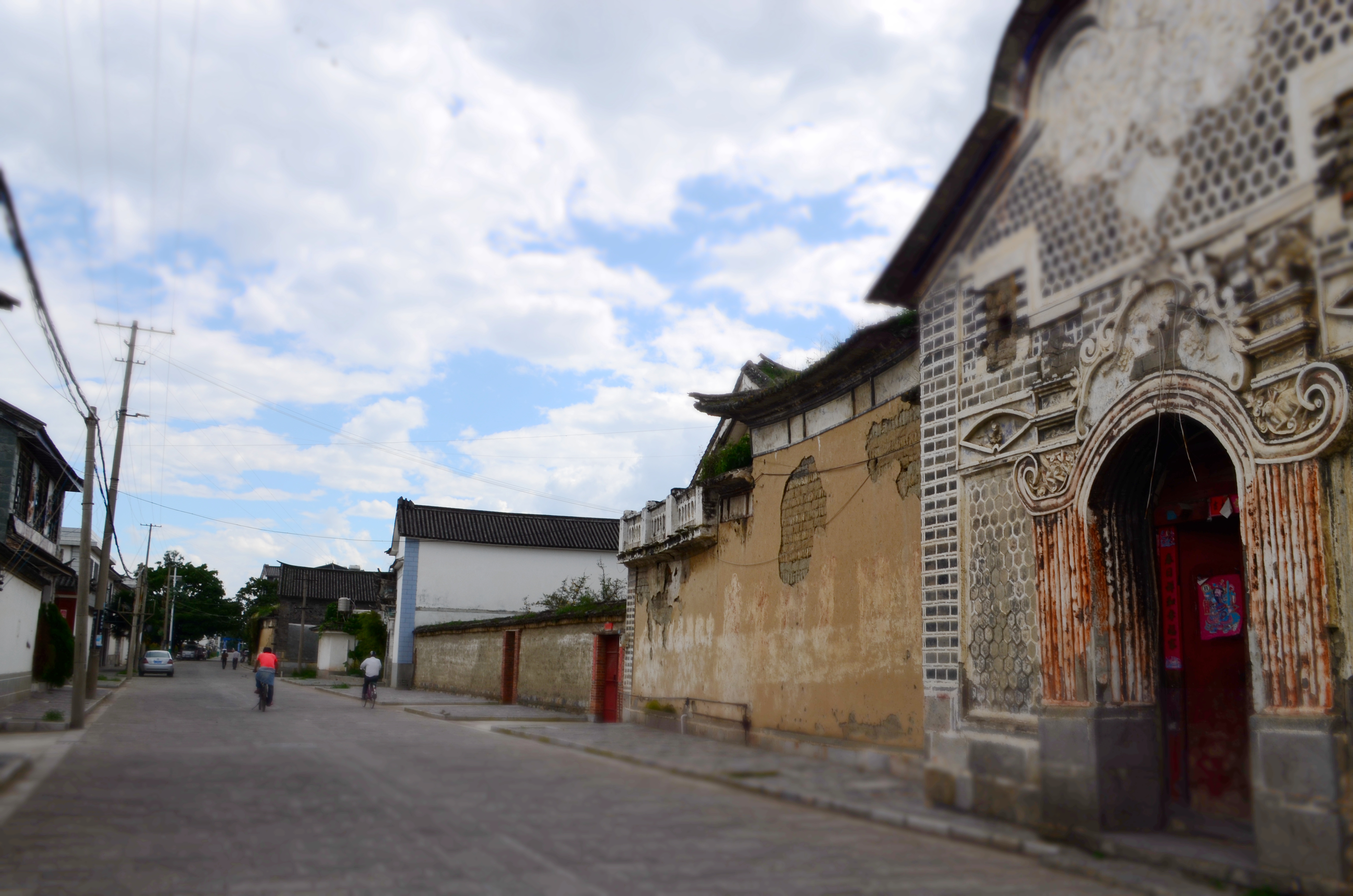 A street, wall, and old gate in Xizhou